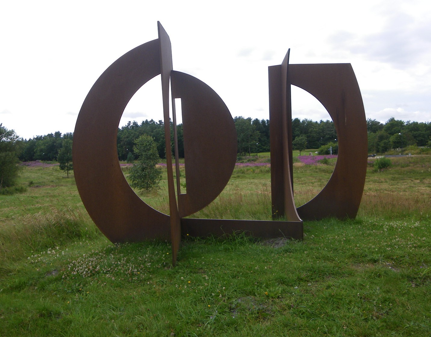 Hans August Andersen, A Meeting, 1994